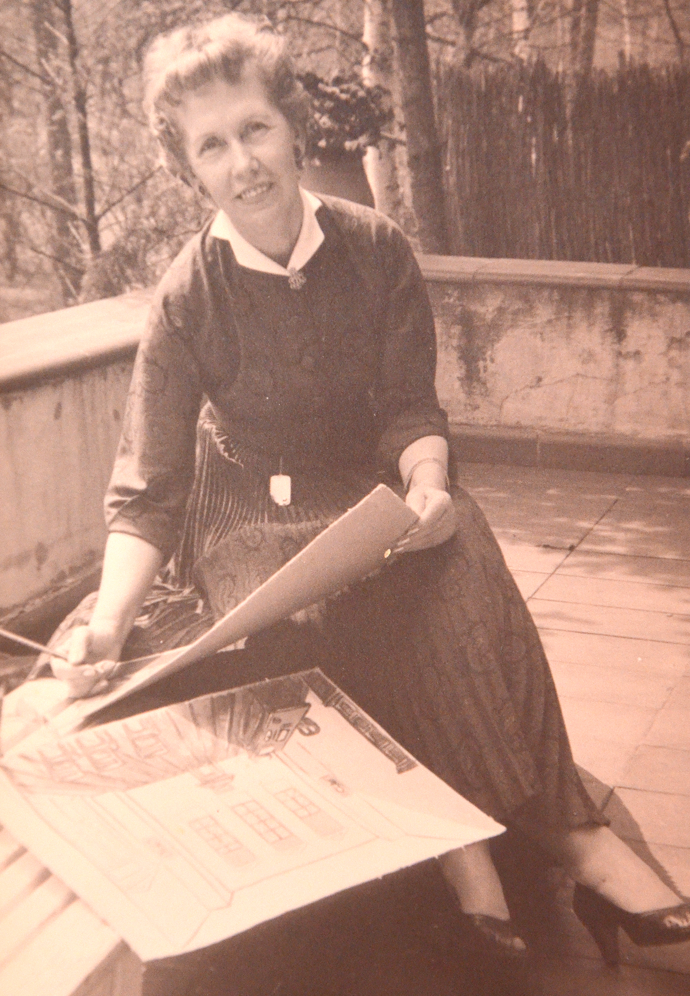 Ita Maximowna at the terrace of her appartment in Berlin Westend, near Grunewald (family photo of the collection Schnakenburg).